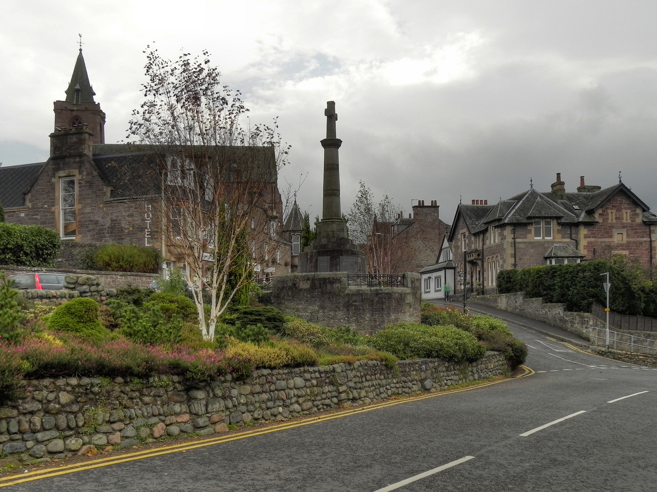 Crieff War Memorial